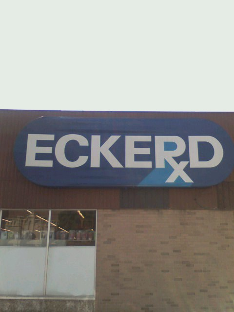 This Eckerd is now Rite Aid, but has been Loblaws, Peters, Carls, and Fays in years past.